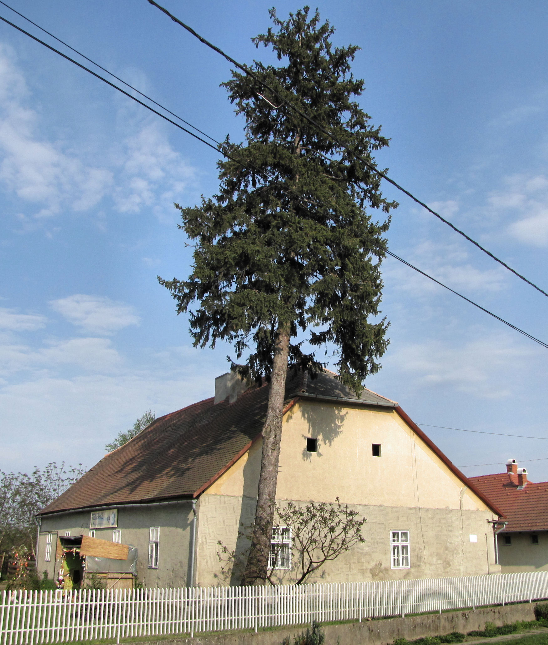 Előszállás, Infotecha- and Community-center.